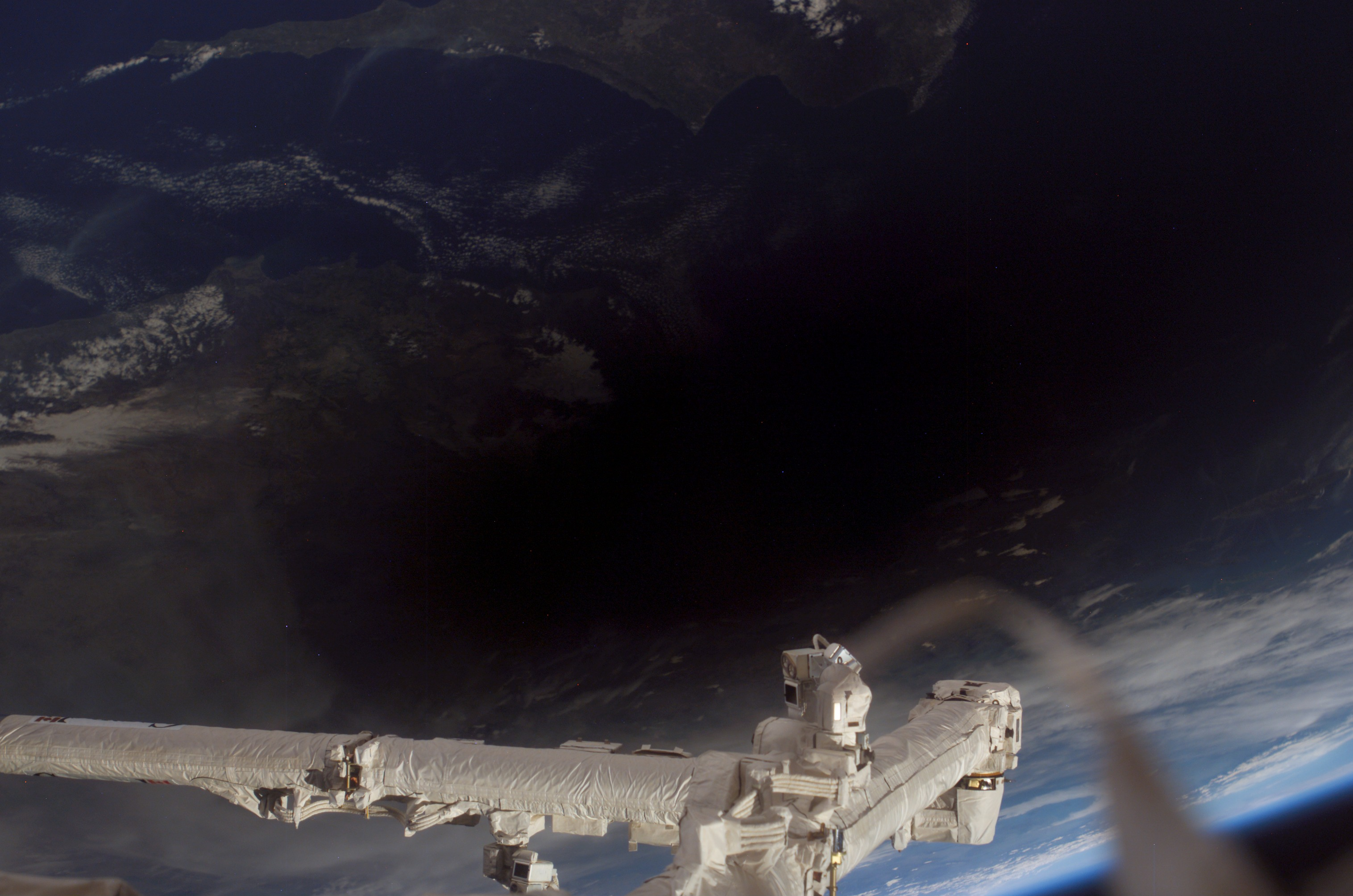 Total Solar Eclipse 2006 March 29, as seen from the International Space Station. The shadow of the moon falls on Earth as seen from the International Space Station, 230 miles above the planet, during a total solar eclipse at about 4:50 a.m. CST Wednesday, March 29. This digital photo was taken by the Expedition 12 crew, Commander Bill McArthur and Flight Engineer Valery Tokarev, who are wrapping up a six-month mission on the complex. Part of the Mediterranean Sea can be seen outside the shadow.